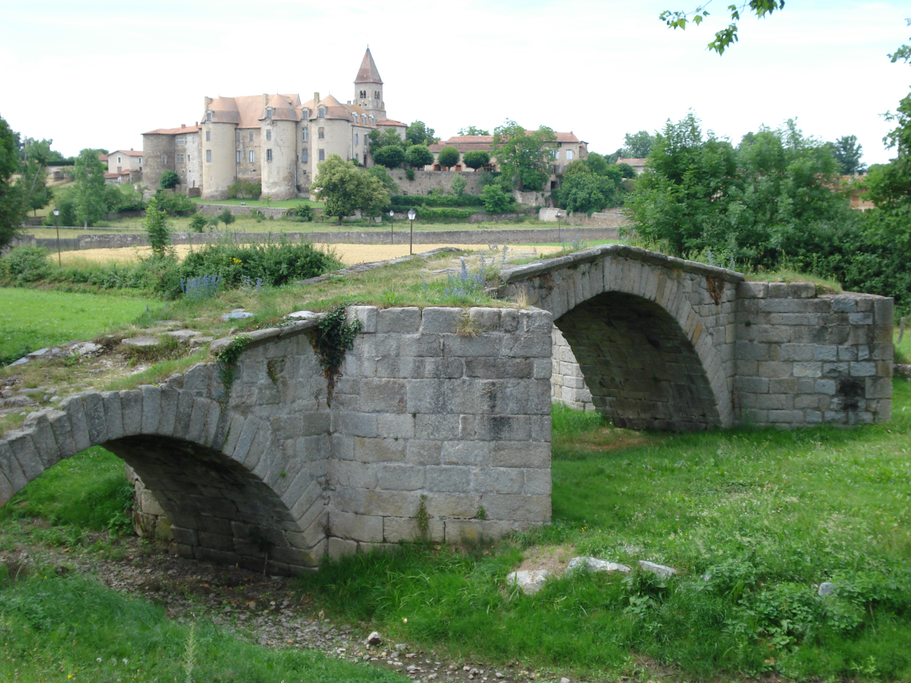 Pommiers (Loire, Fr) old bridge and abbey